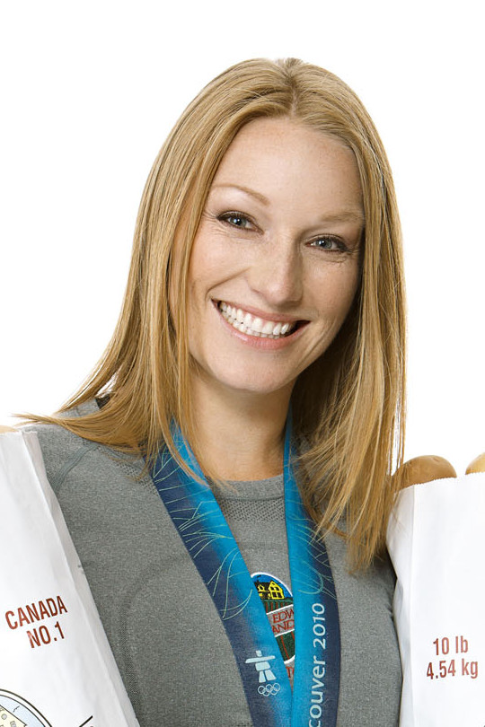 Heather Moyse, Canadian Olympic gold medalist in the bobsleigh and player of the women's national rugby union team